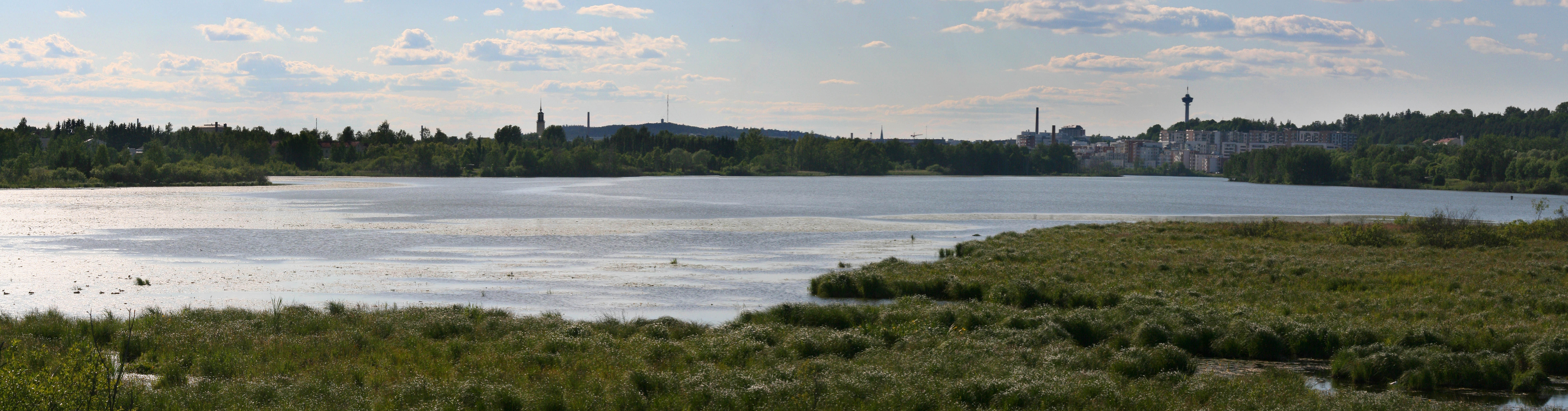 Lake Iidesjärvi, Tampere, Finland